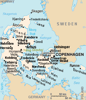 Map of Denmark, showing largest cities and island/region names. Most city names (31) have been labeled with font-face Arial or Arial Narrow, as font-size 8 or 10; the island/region names are labeled on the diagonal at a 20-degree slant. Denmark contains over 300 towns, but they are evenly dispersed around 35 main towns, except near Copenhagen, which has very high density.